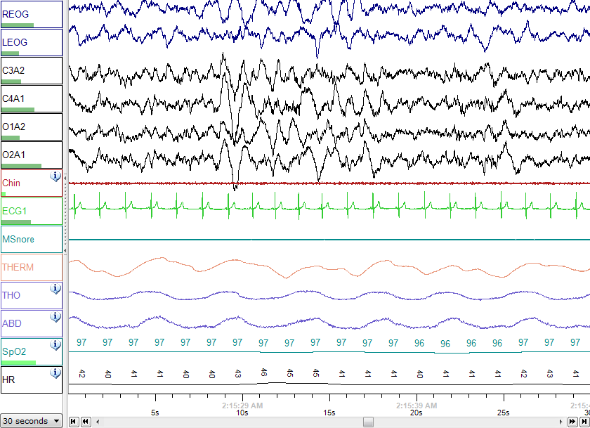 Screenshot of a person in stage N3 sleep.